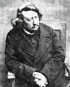 Pierre Henry Leroux (1797-1871), French philosopher in Jersey, Great Britain